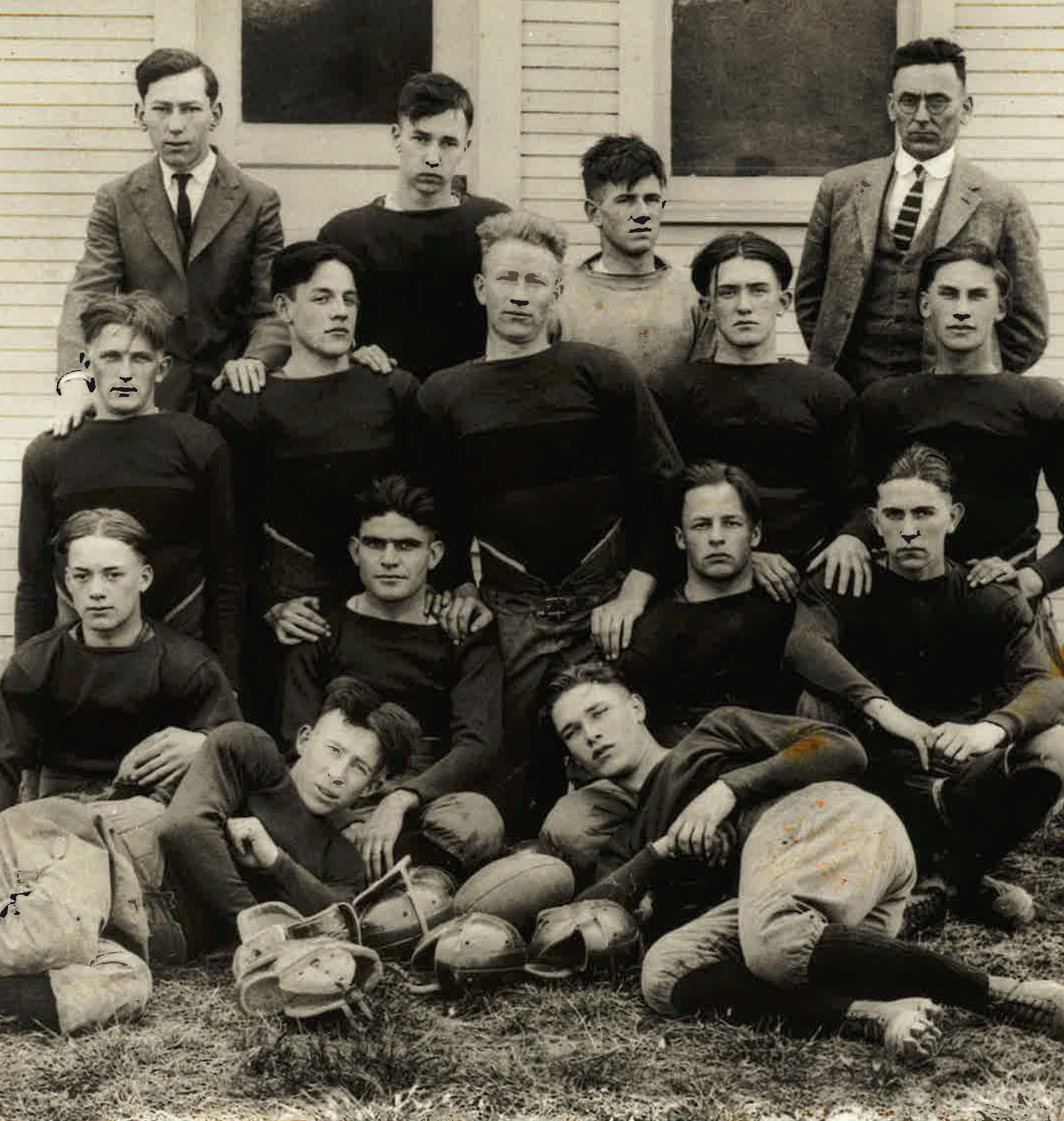 The first football team in Wirt County taken in 1923-1924